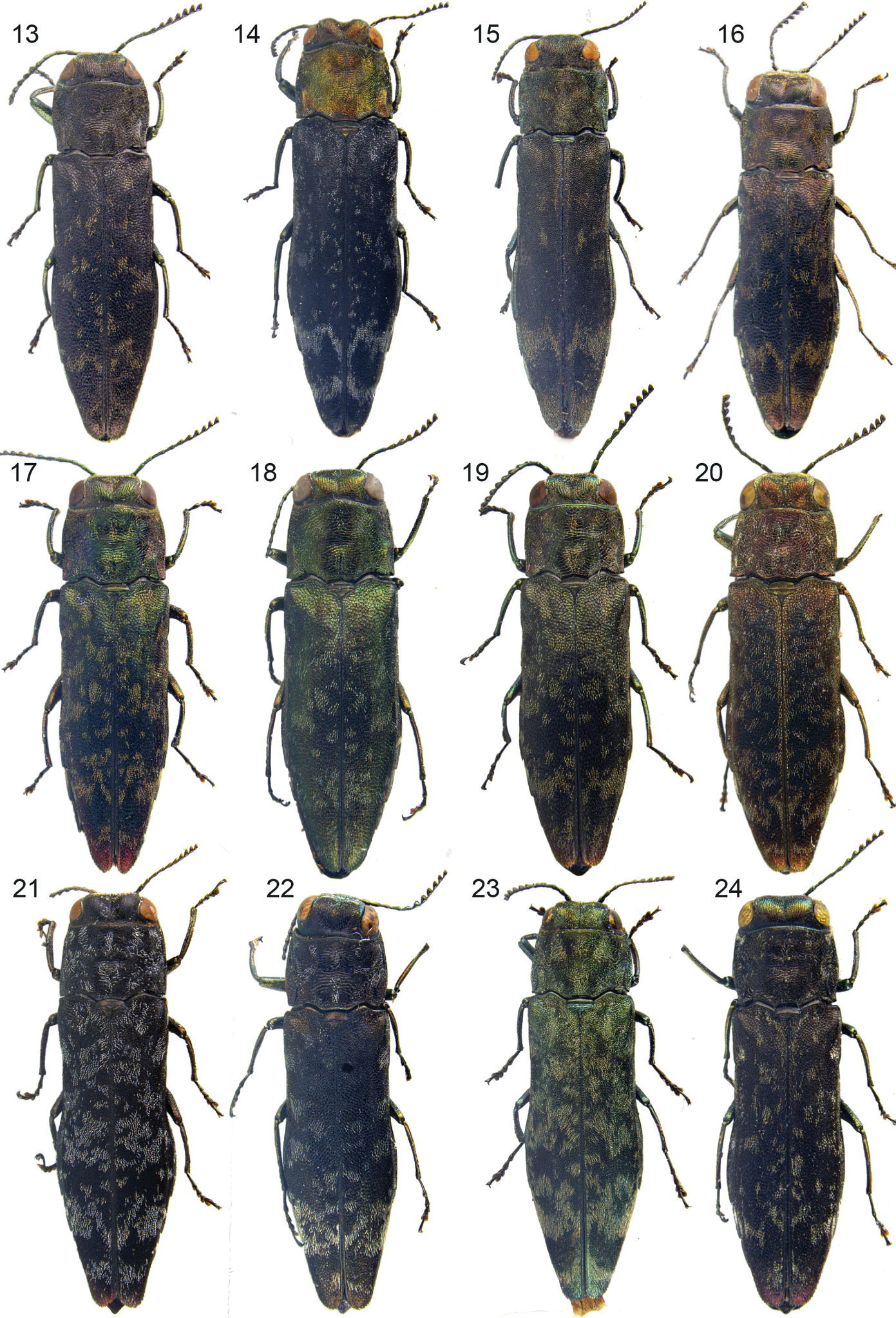 Habitus of Agrilus: 13 Agrilus nebulosus Jendek 2013, holotype. 14 Agrilus trepanatus Jendek 2013, holotype. 15 Agrilus yamawakii Kurosawa, 1957 16 Agrilus horniellus Obenberger, 1935 17 Agrilus occipitalis (Eschscholtz, 1822) – Laos, Vientiane, Ban Phabat 18 Agrilus occipitalis (Eschscholtz, 1822) – Papua New Guinea, Sideia island 19 Agrilus occipitalis (Eschscholtz, 1822) – Philippines, Palawan 20 Agrilus sordidulus Obenberger, 1916 21 Agrilus inamoenus Kerremans, 1892 22 Agrilus mucidus Jendek 2013, holotype. 23 Agrilus pluvius Jendek 2013, holotype. 24 Agrilus sordidulus Obenberger, 1916.